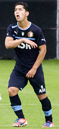 Anass Achahbar, player of Feyenoord